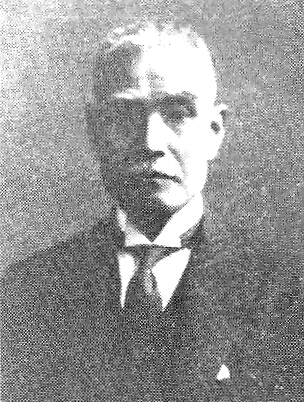 Shūkotsu Togawa (1871-1939) was a Japanese writer.